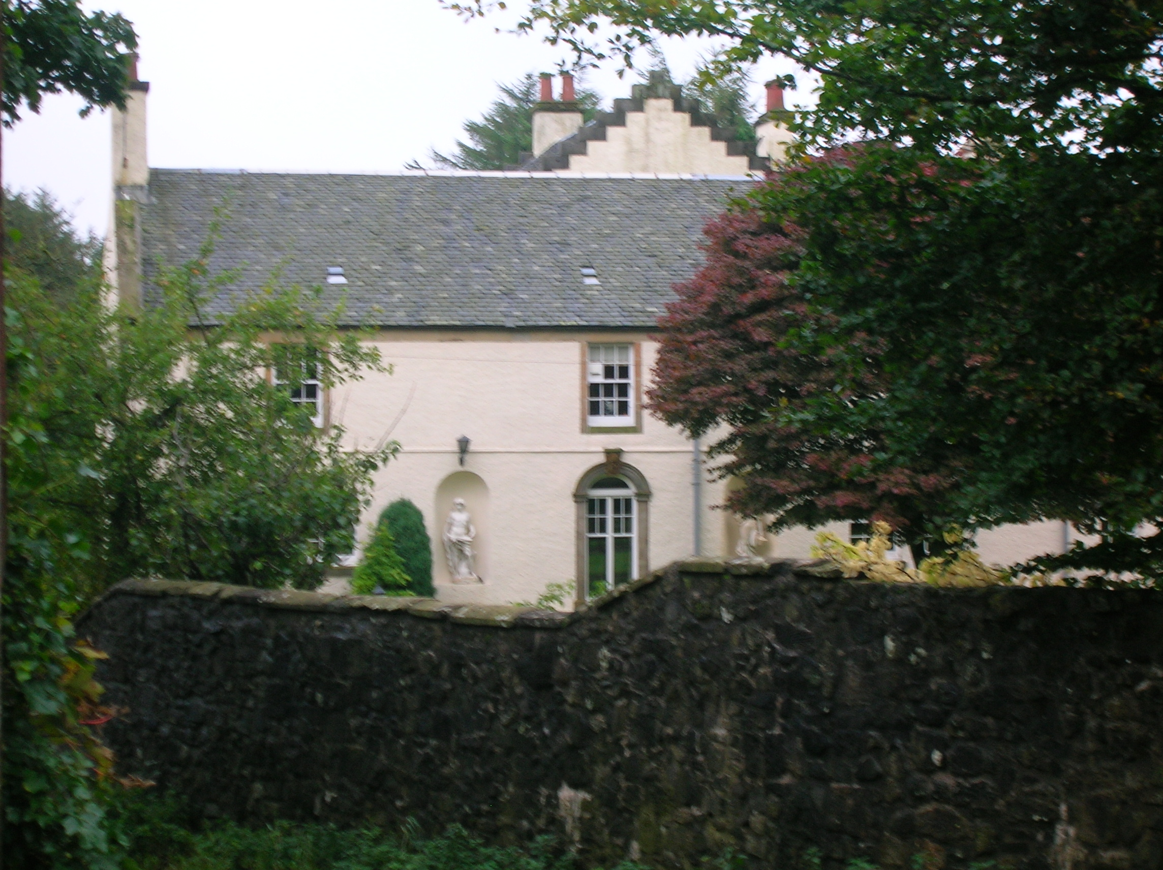 Hall of Caldwell, hall, East Renfrewshire, Scotland